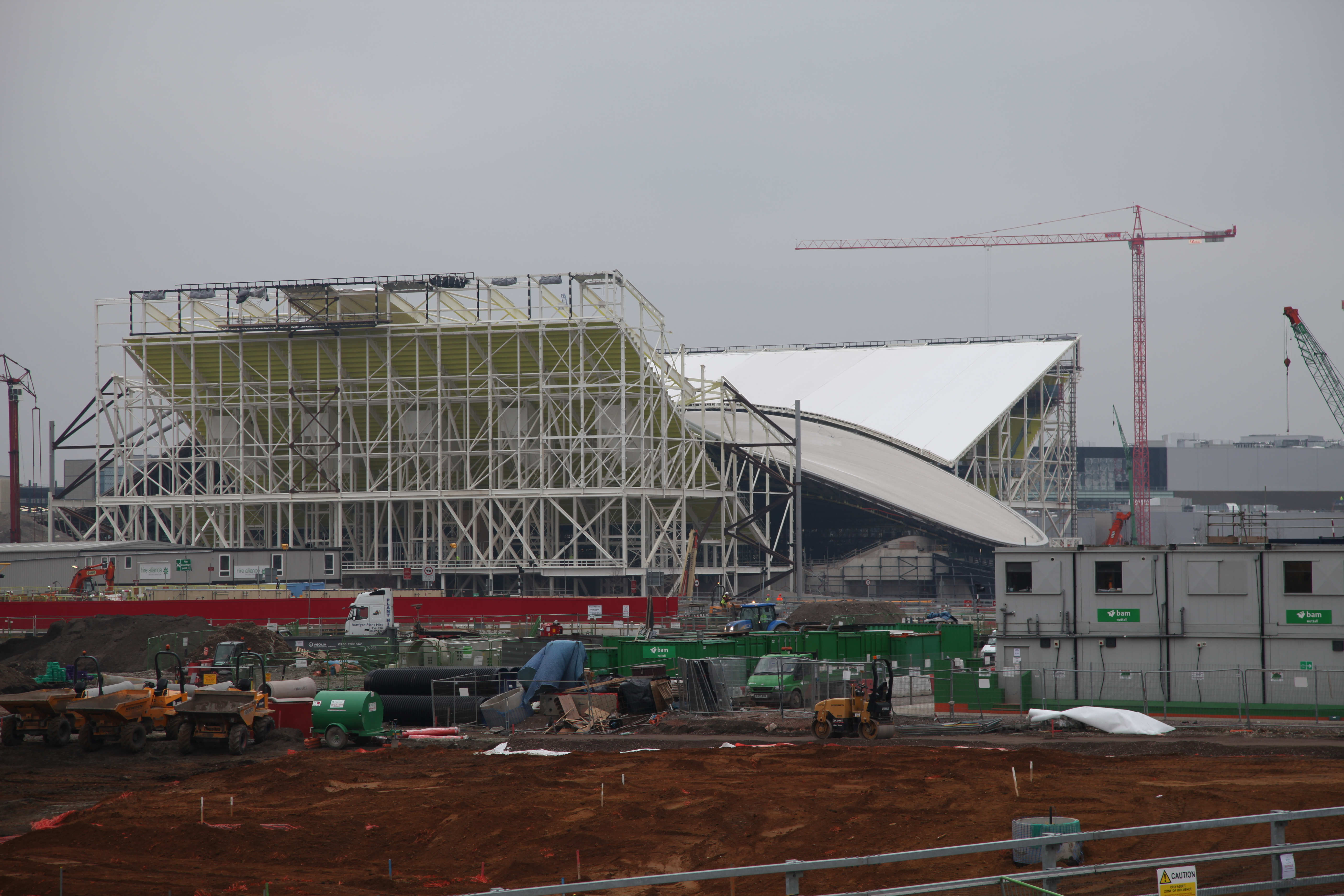 Construction of the London Aquatics Centre of the 2012 Olympics. From the Olympic Park in Jan. 2011.